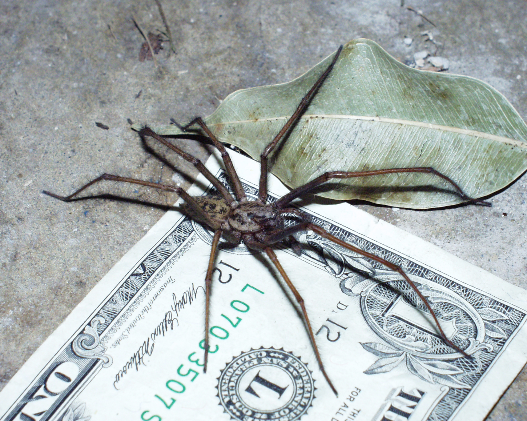 Tegenaria duellica